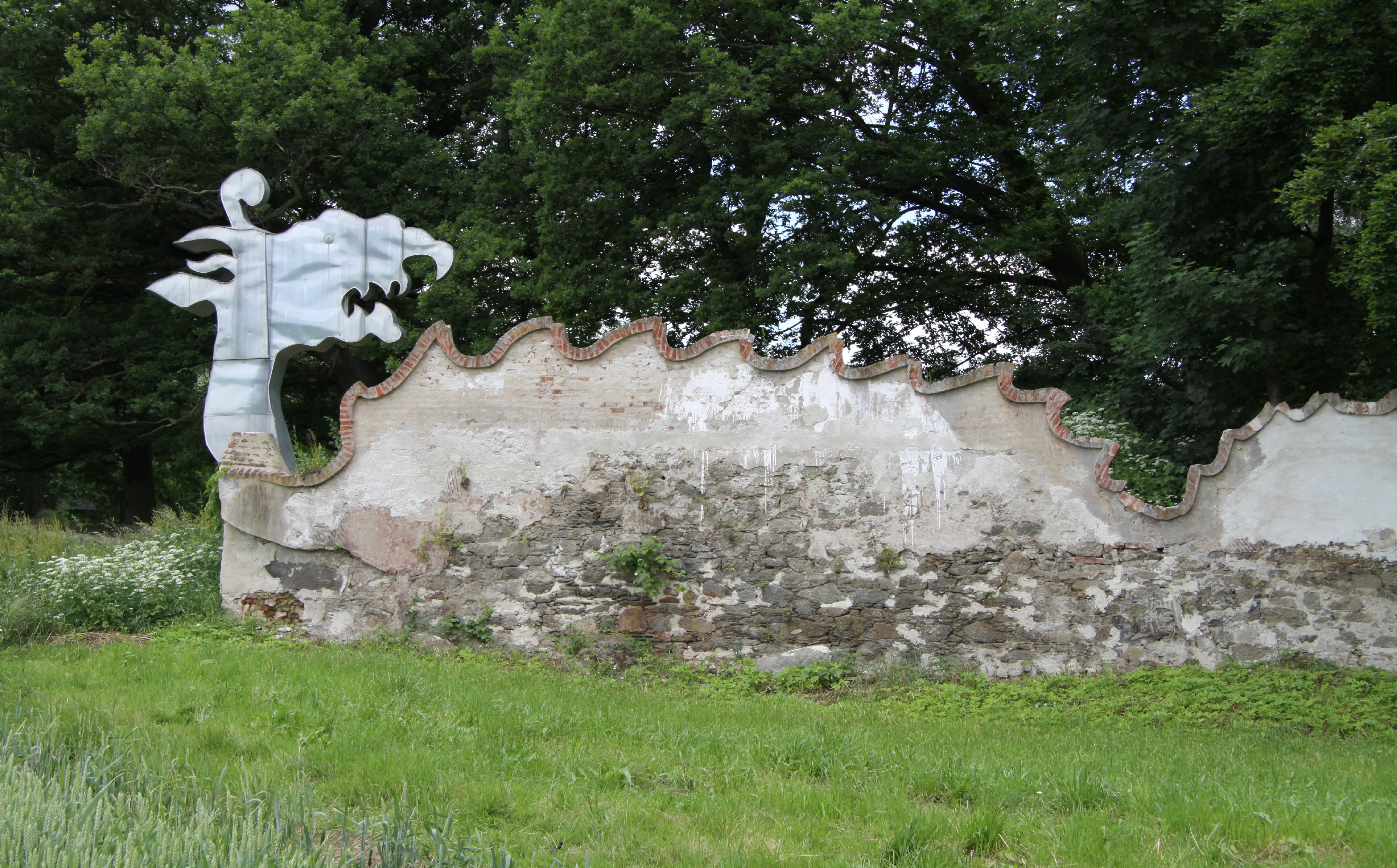 Kladruby village in Strakonice District, Czech Republic This photograph was taken within the scope of the 'Czech Municipalities Photographs' grant. - Google Maps - Google Earth